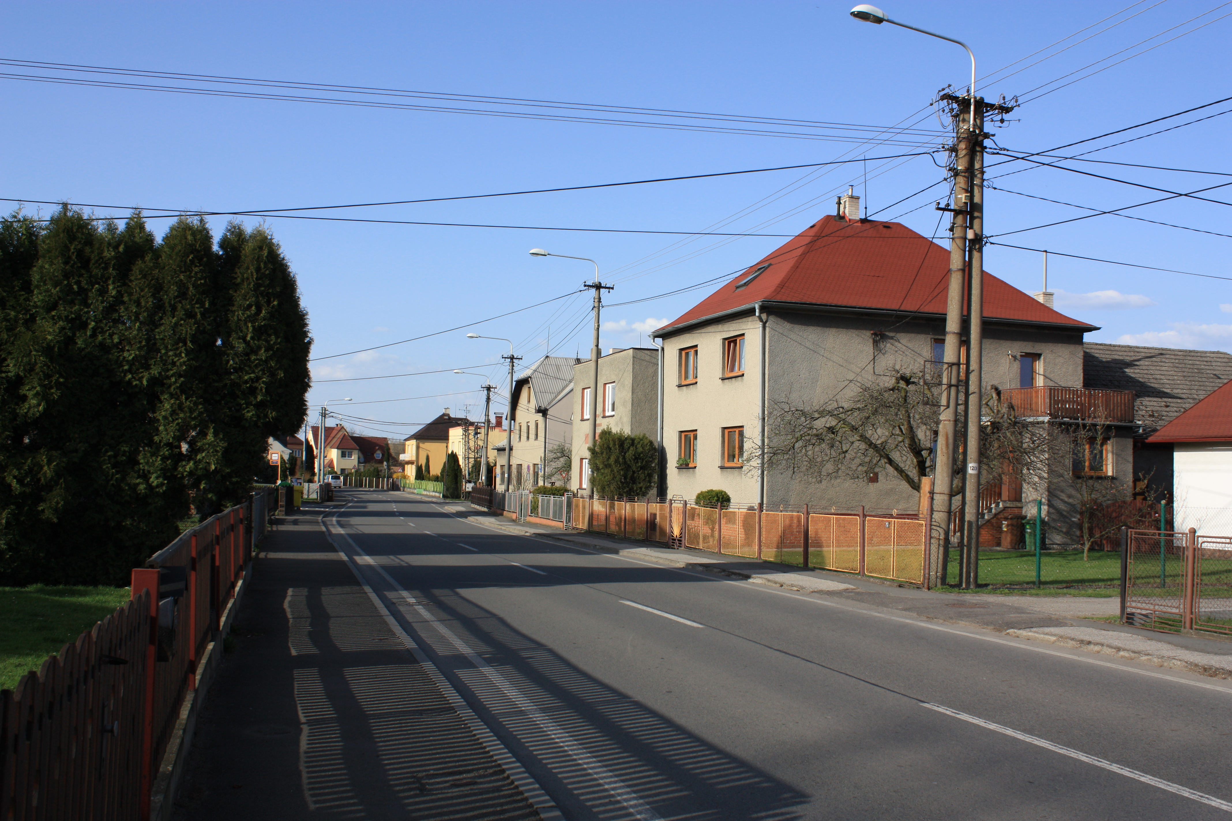 Antošovická street in Antošovice, Ostrava-City District, Moravian Silesian Region, Czech Republic